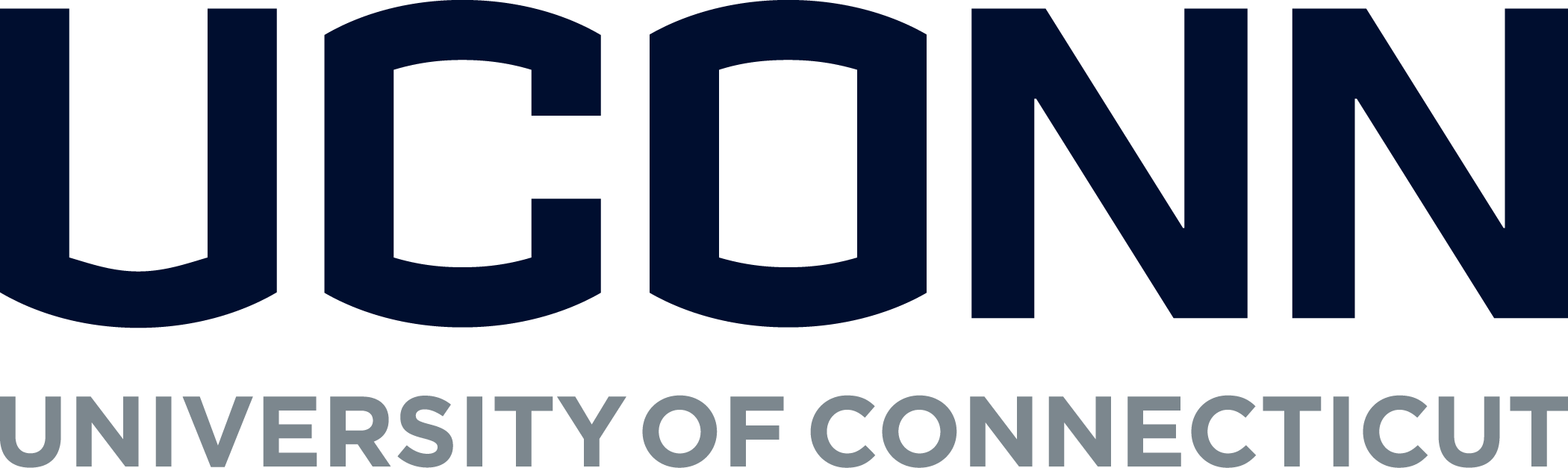 Academic wordmark for UCONN.